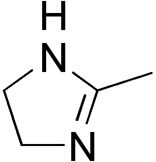 chemical structure of lysidine